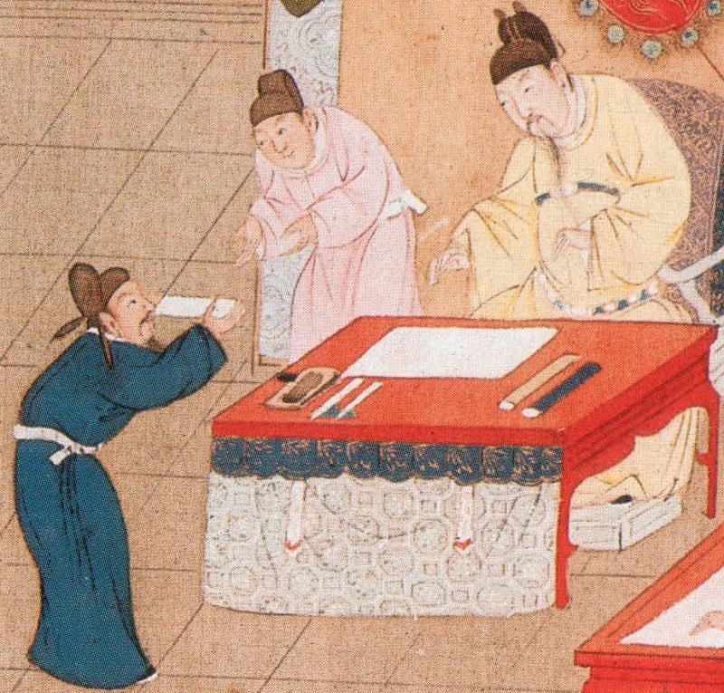 The Chinese Emperor during the Civil Service Examination